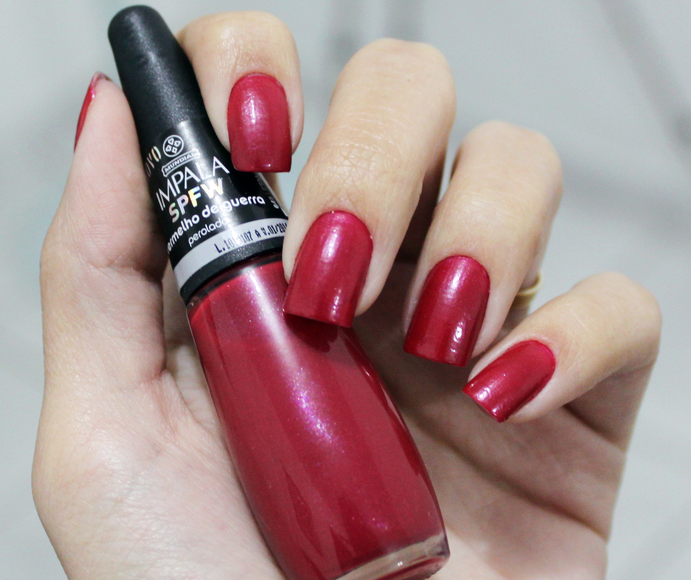 Impala - Vermelho de Guerra.